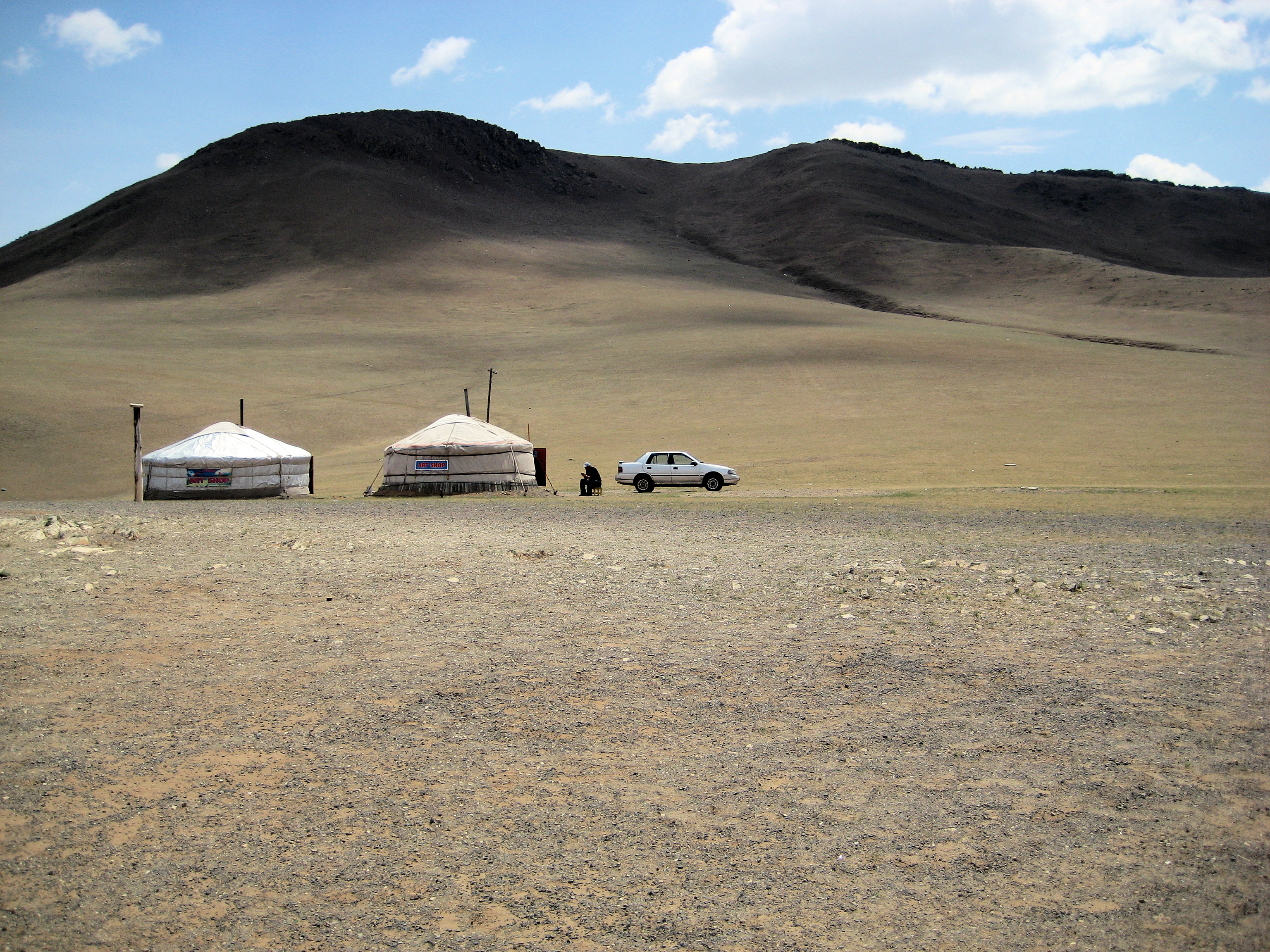 Roadside tourist trap in Mongolia